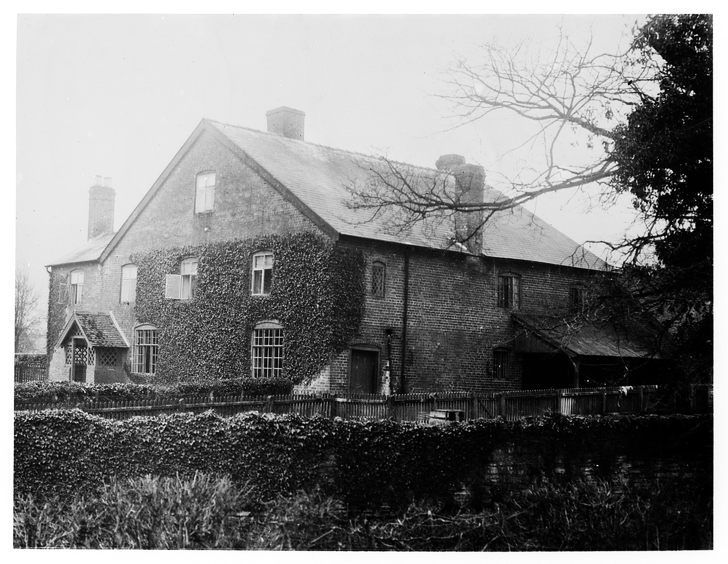 Birthplace of H.H. Hickman, the house at Lady Halton. Wellcome Images Keywords: Henry Hill Hickman